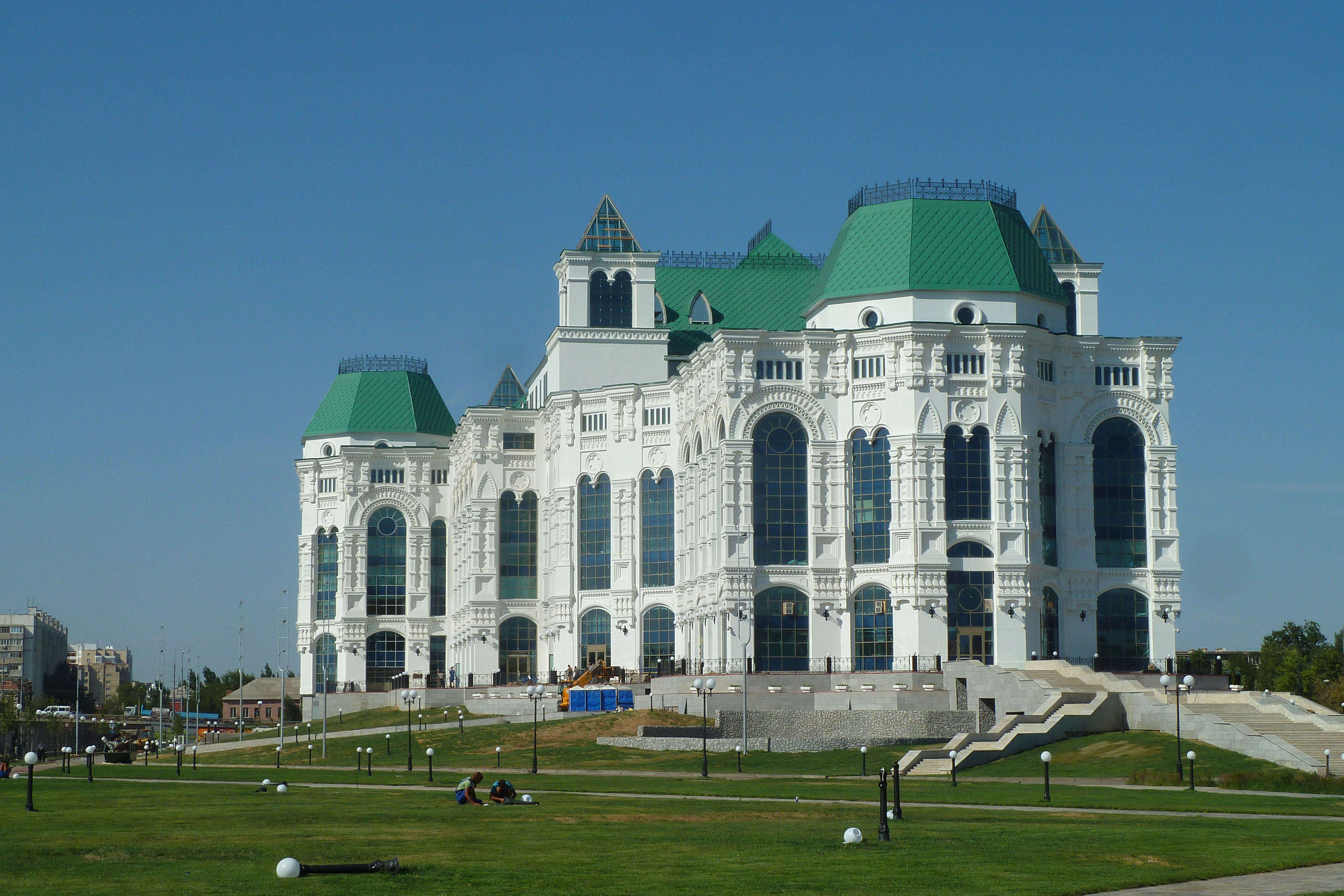 The new Astrakhan music theatre, built in 2007-2011